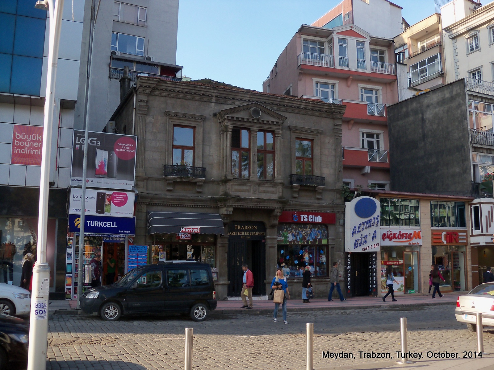 Office of the association of journalists in Trabzon, Turkey.